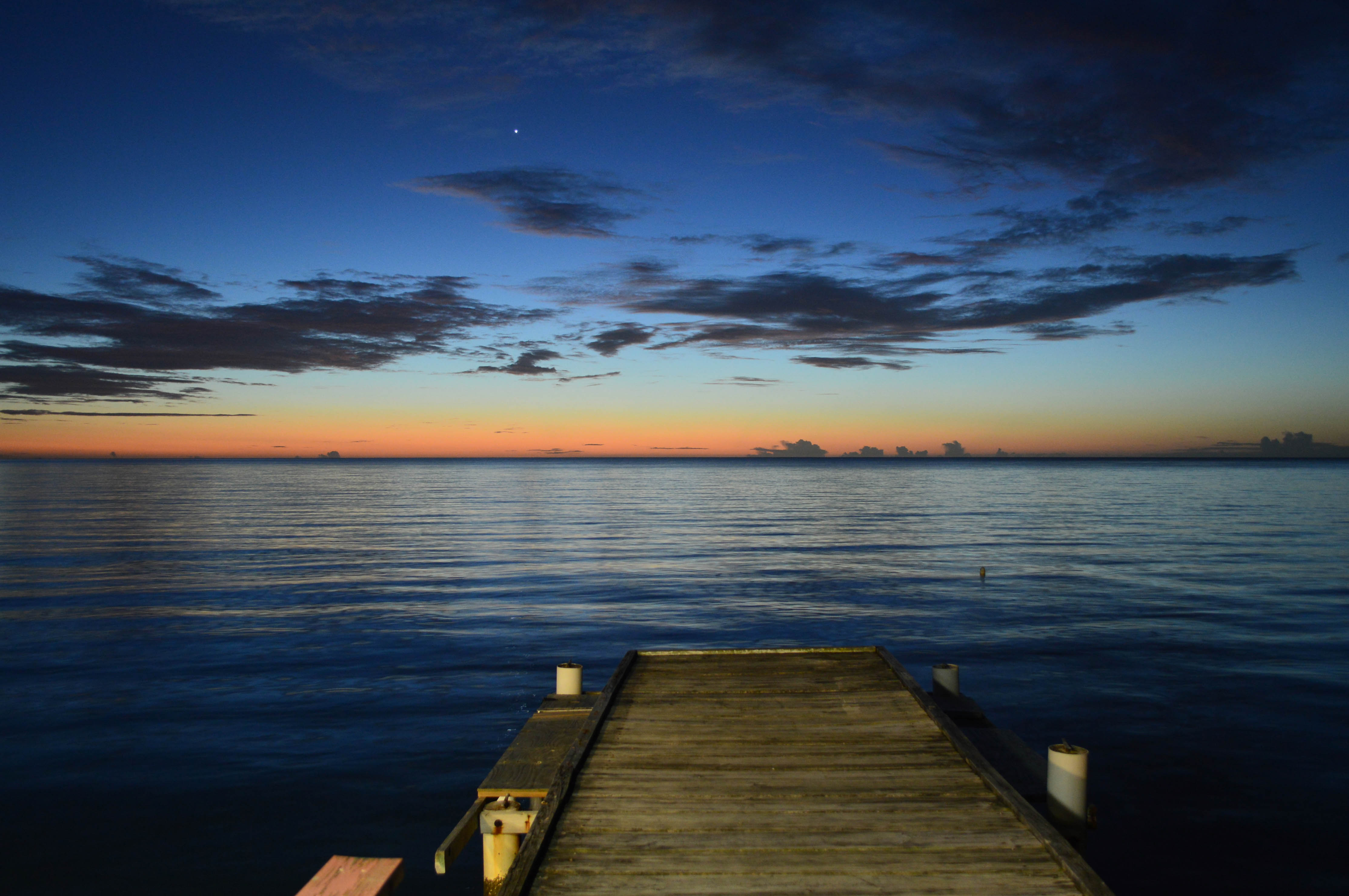 Dining in Joyuda, Cabo Rojo, Puerto Rico